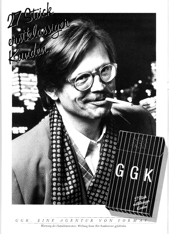 Gert Winkler in an GGK ad.